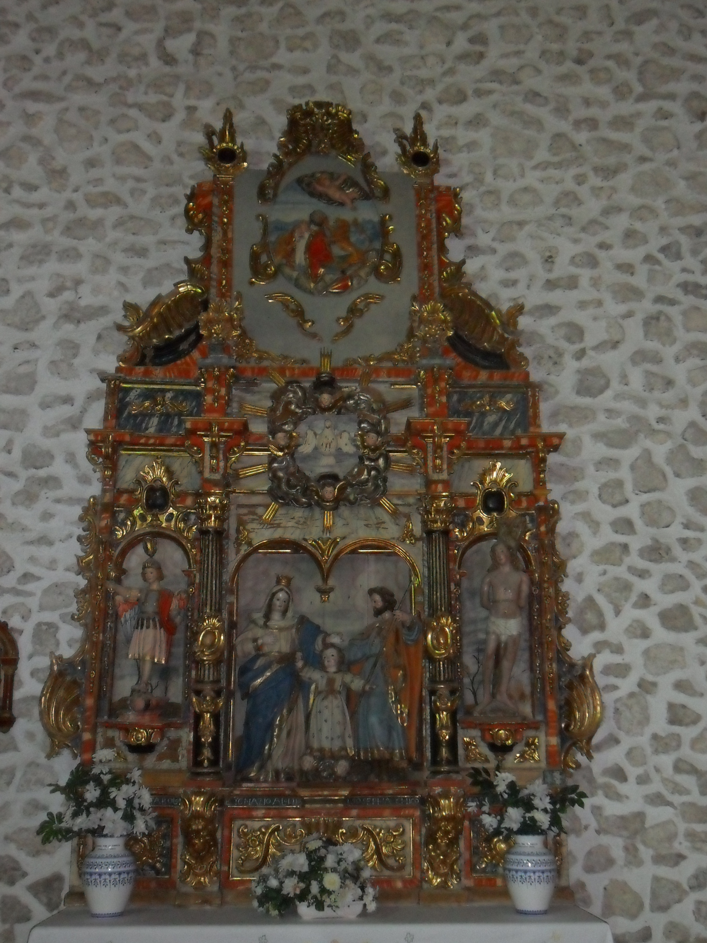 Baroque Altarpiece (1757),Santibáñez de Valcorba, Valladolid.Spain